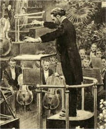 Henry J. Wood